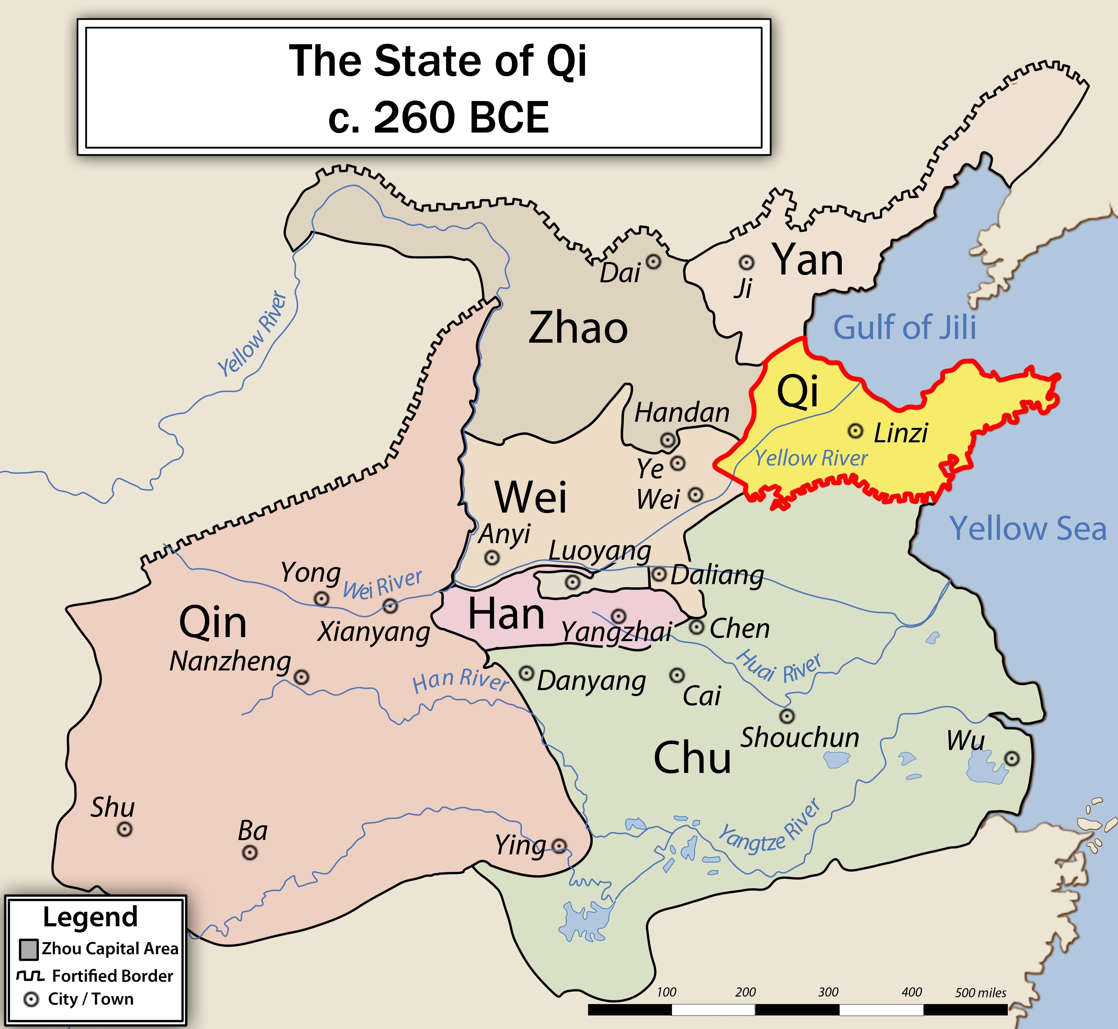 China Map, Qi State, 260BCE